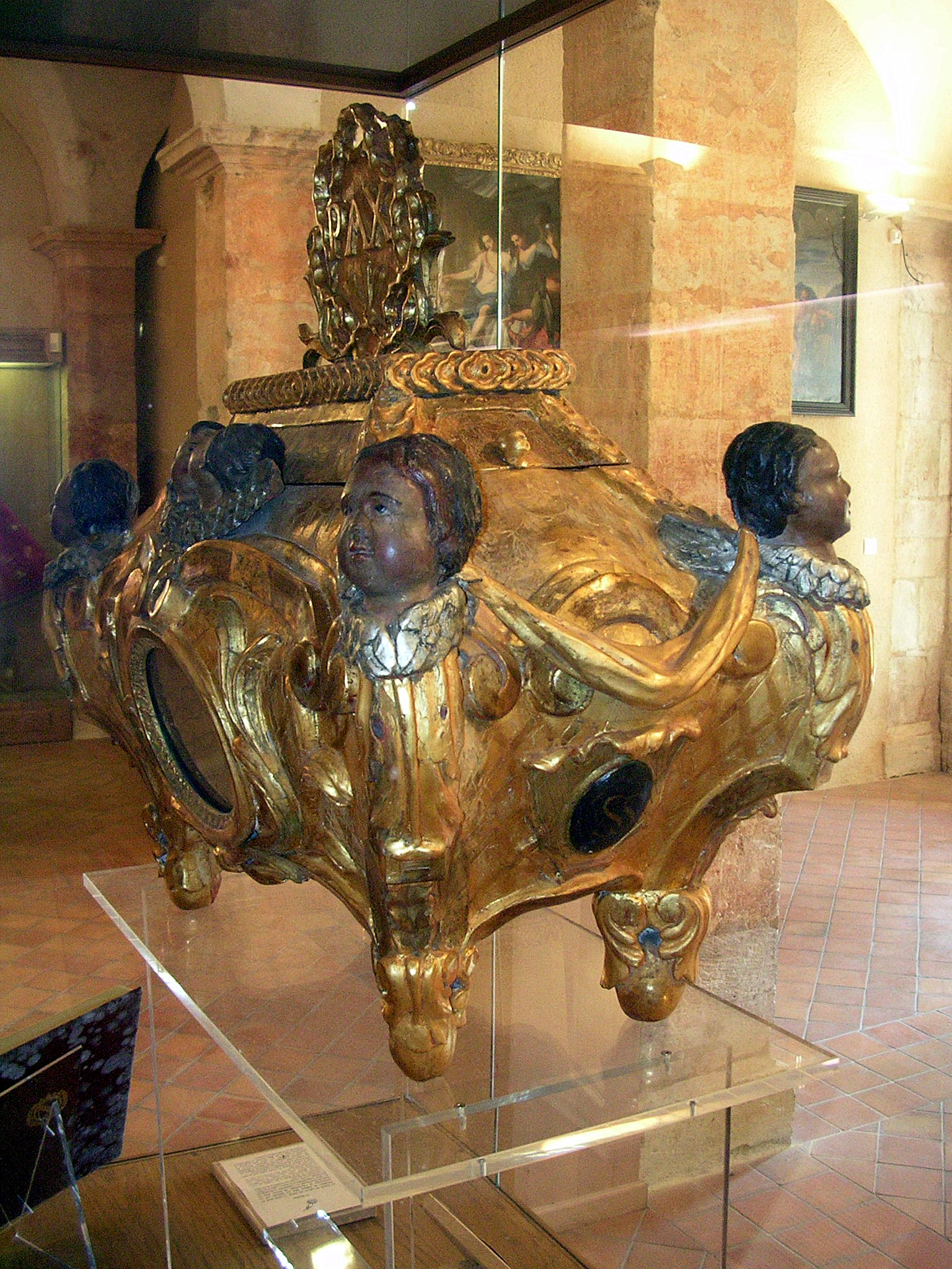 St. Severus' relics. Benedictine abbey of Saint-Sever, Landes, France.